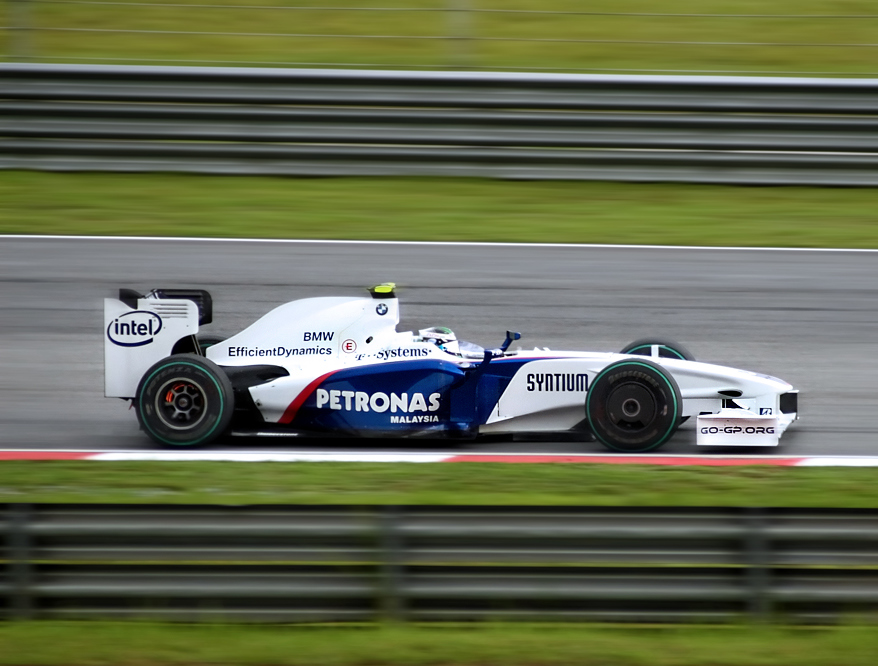 Nick Heidfeld at 2009 Malaysian Grand Prix, Sepang, Malaysia.